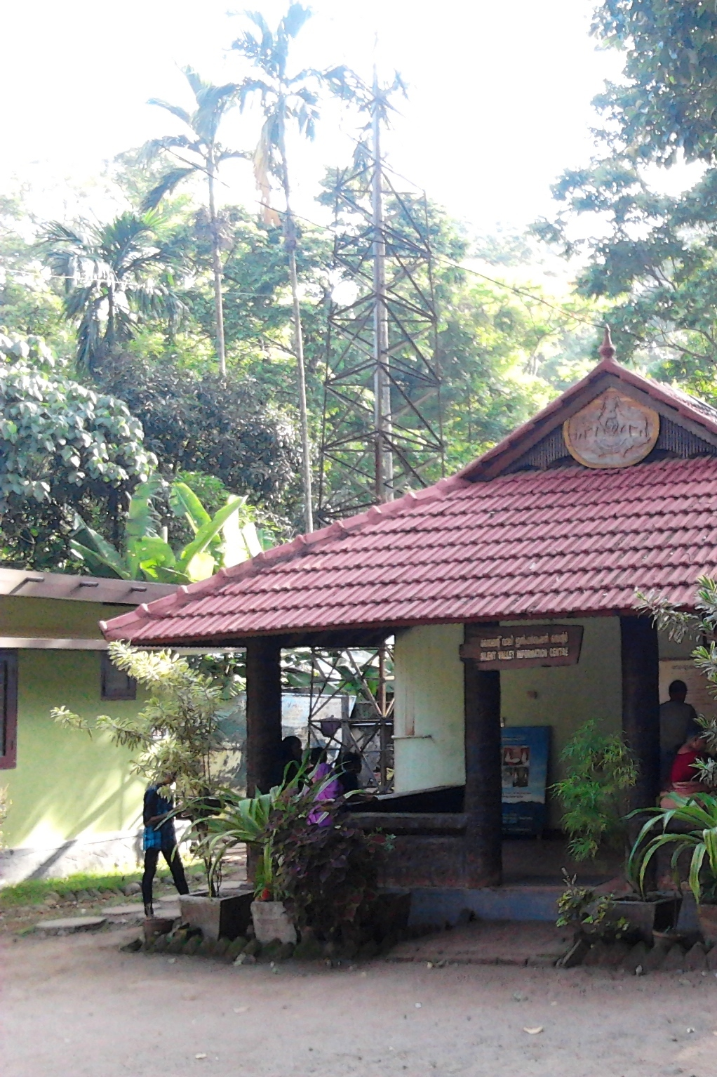 Mukkali